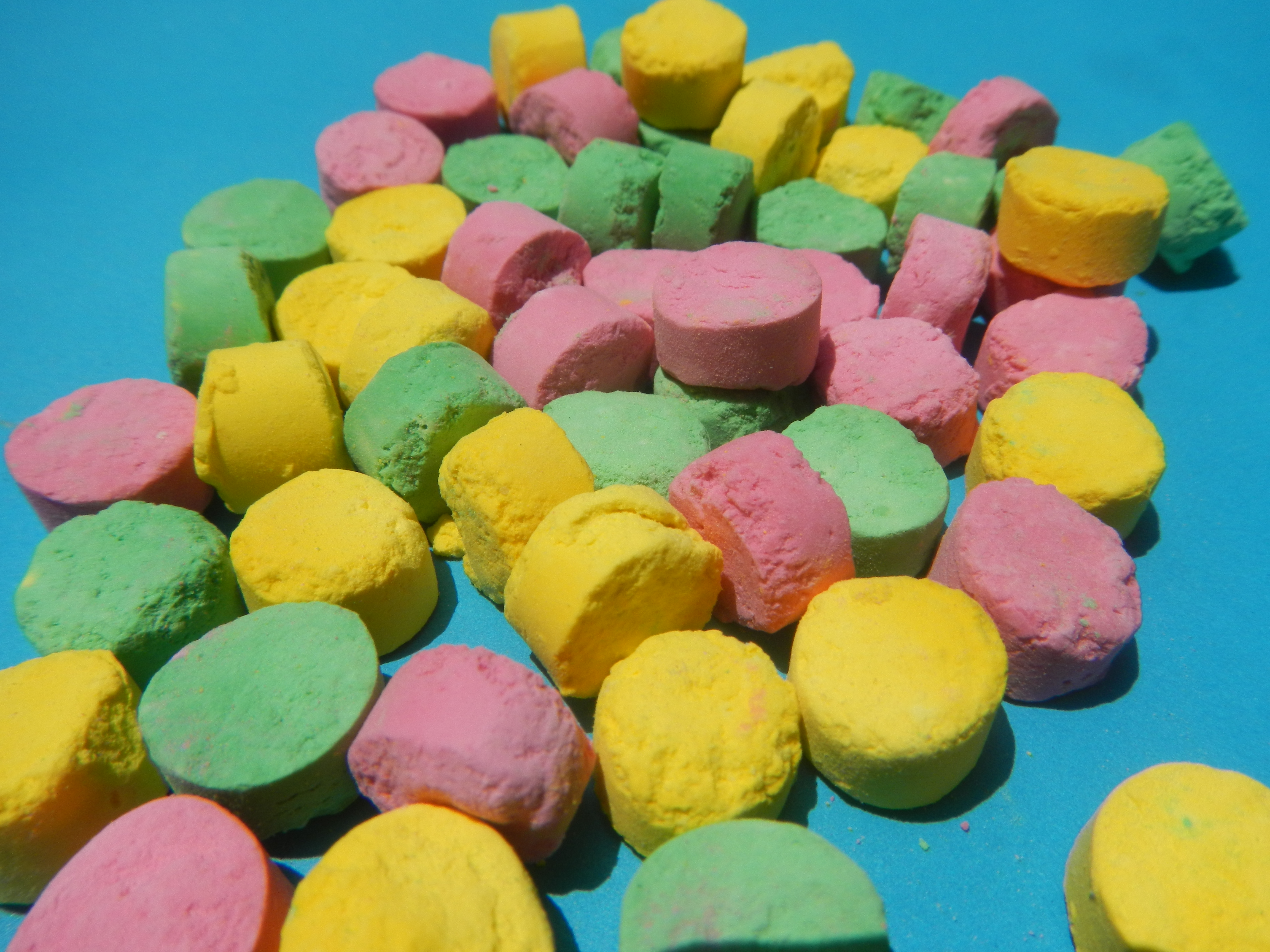 Candy of the Philippines Pastillas Puto Masa Coco Honey Ginataang Mais Ginataang Tuna Lumpiang Sariwa Fried Dilis Fried Tuyo Cream Dori m&ms Mix & Match photos taken in Barangay Poblacion 14°57'17"N 120°54'2"E Baliuag, Bulacan, Bulacan province (Note: Judge Florentino Floro, the owner, to repeat, Donor Florentino Floro of all these photos Judge Floro hereby donate gratuitously, freely and unconditionally all these photos to and for Wikimedia Commons, exclusively, for public use of the public domain, and again without any condition whatsoever).